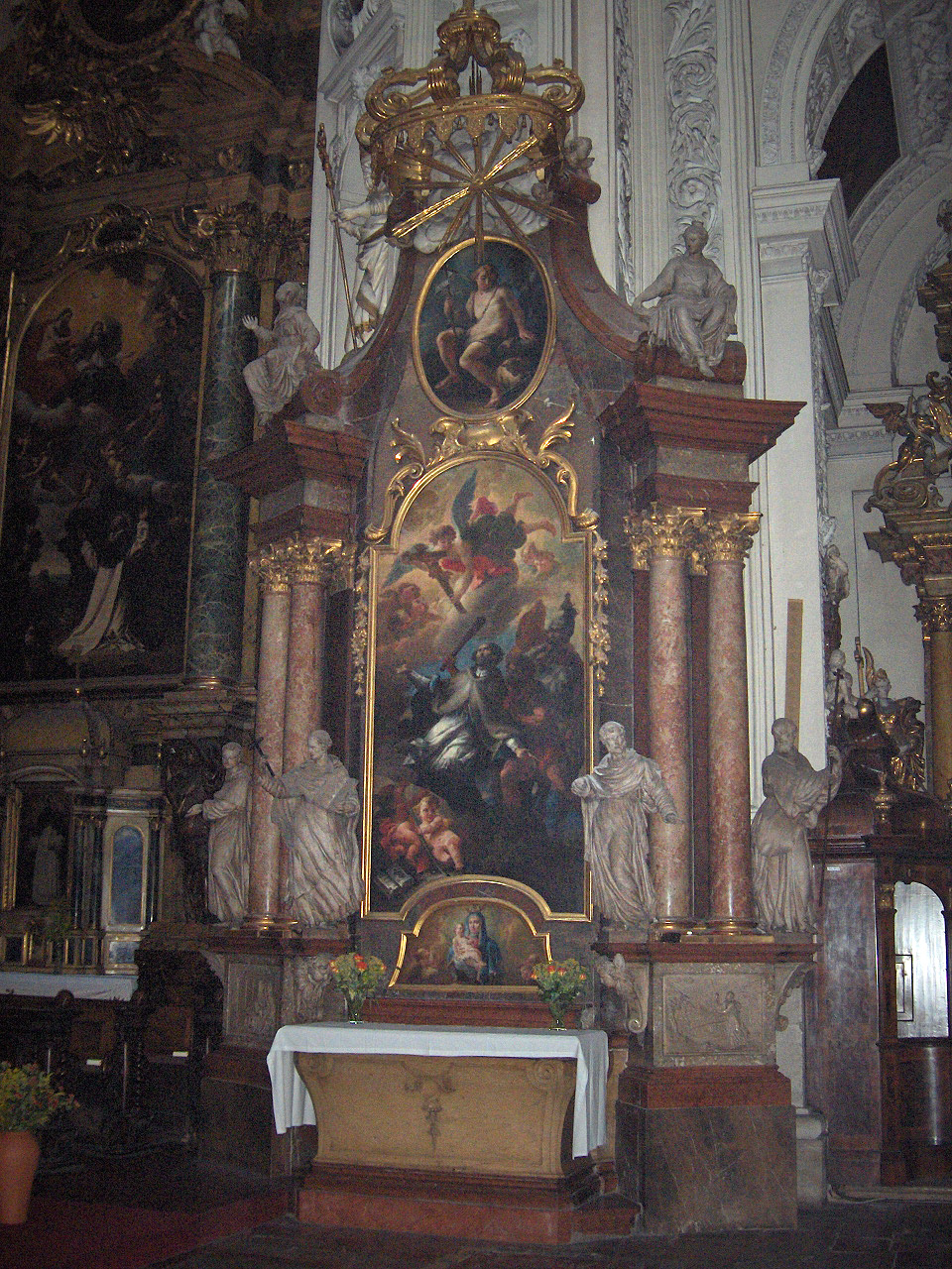 St. Johannes Nepomuk altar; statues (from left to right): Antony of Padua, Vincent Ferrer, St. Peter, Severin von Noricum); Dominikanerkirche, Vienna, Austria